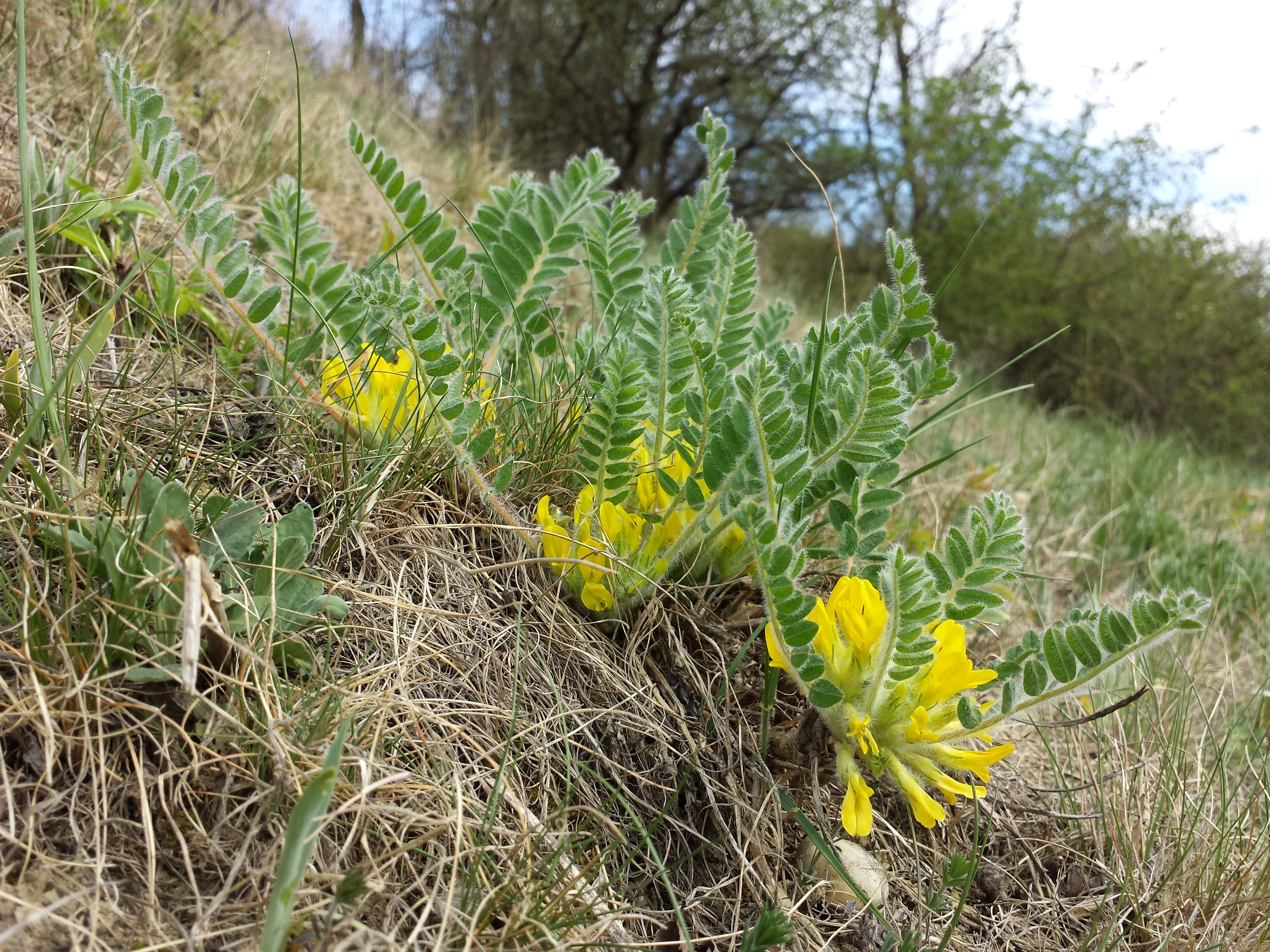 Habitus Taxon: Astragalus exscapus (sensu Fischer et al. EfÖLS 2008 ISBN 978-3-85474-187-9) Location: nature reserve Mühlberg, district Hollabrunn, Lower Austria - ca. 260 m a.s.l. Habitat: dry grassland over Loess This media shows the nature reserve in Lower Austria with the ID 9.